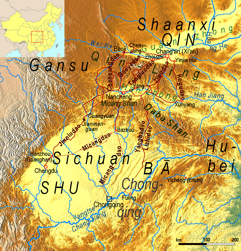 Map of the ancient Shu-Roads, in Pinyin Shǔdào